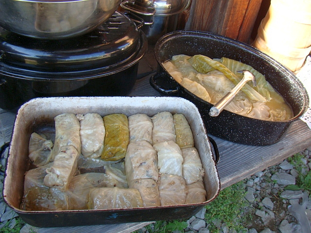 Kermesz Karpackich Smaków in Sanok, 2010